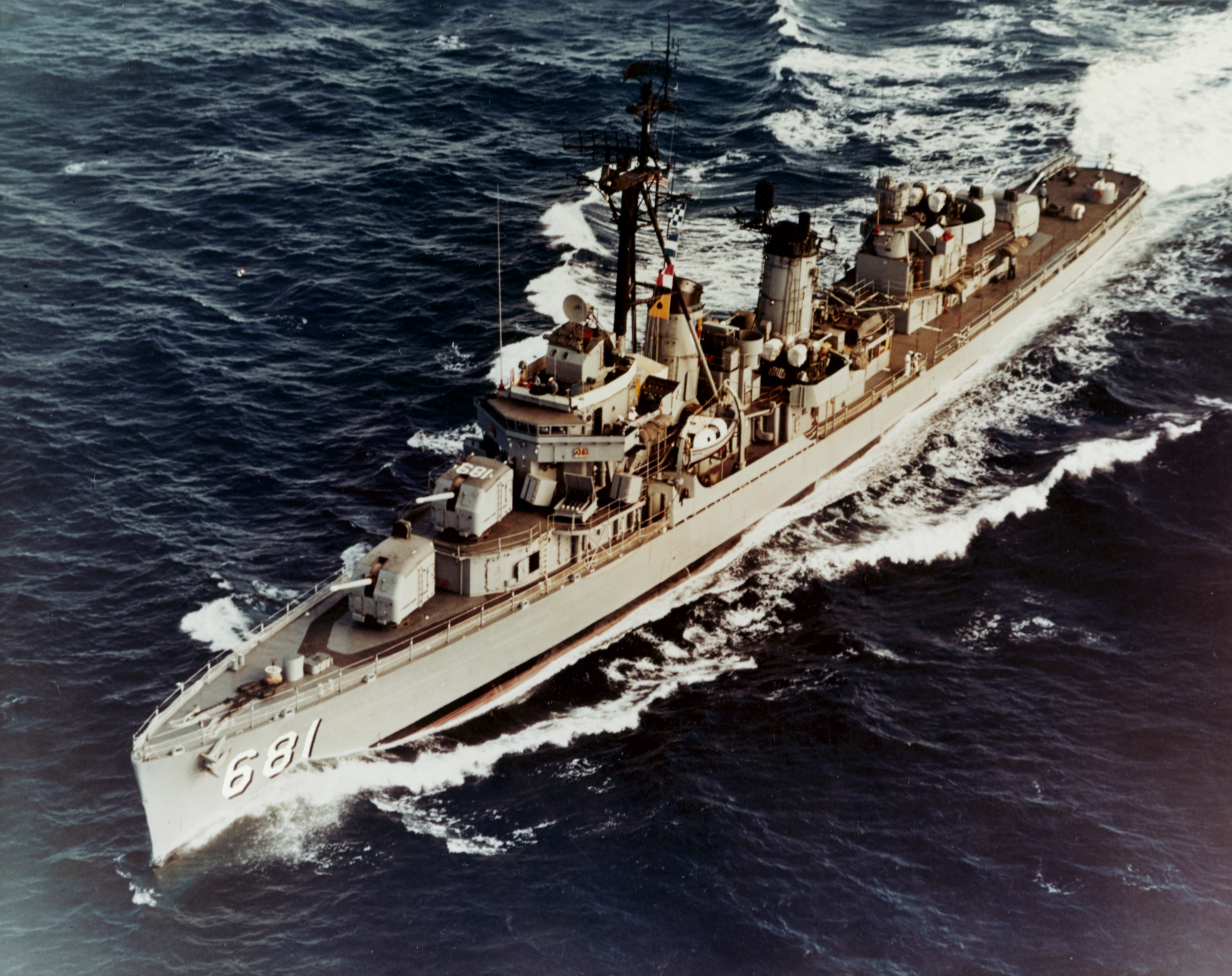 The U.S. Navy destroyer USS Hopewell (DD-681) underway at sea, in the 1960s.